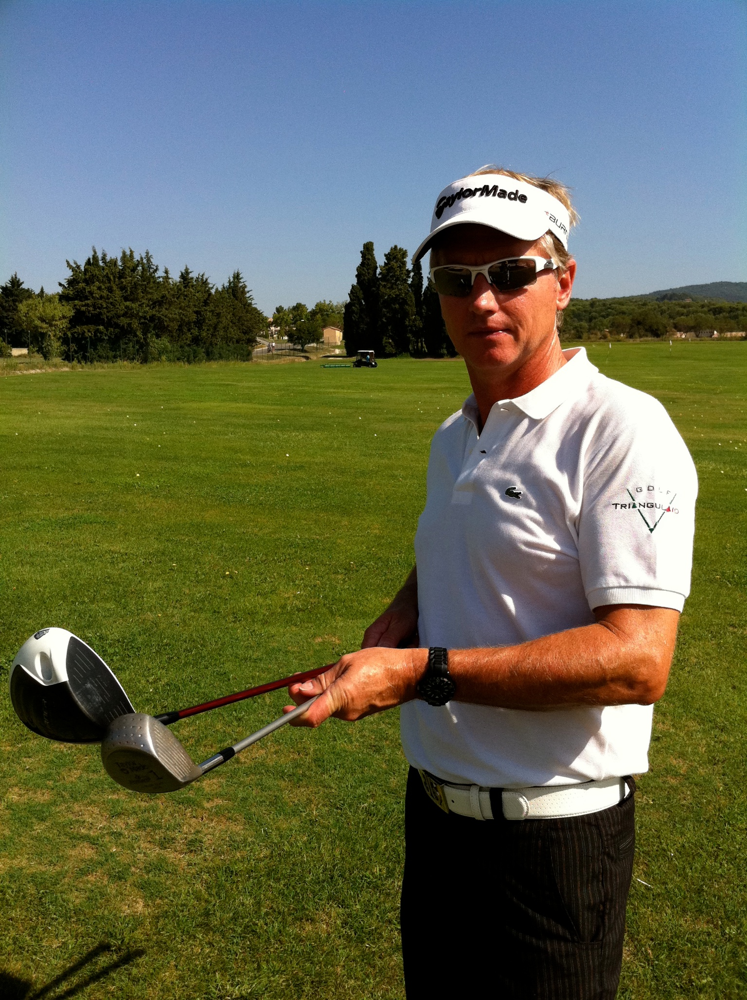 Open International de Paris - Phil Golding Winner